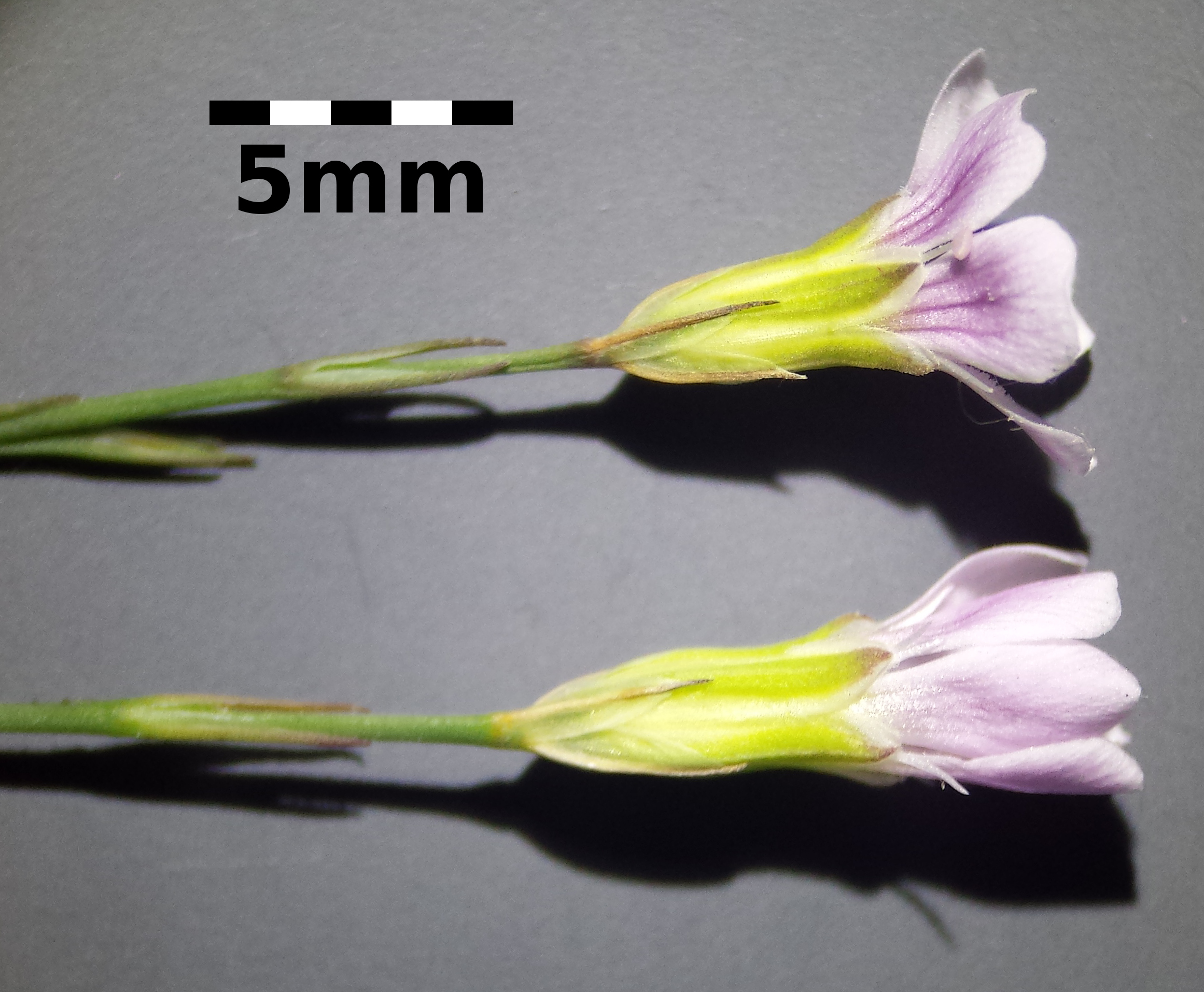 Flowers Taxon: Petrorhagia saxifraga (sensu Fischer et al. EfÖLS 2008 ISBN 978-3-85474-187-9) Location: Neue Donau in Floridsdorf, Vienna - ca. 160 m a.s.l. Habitat: stony wayside